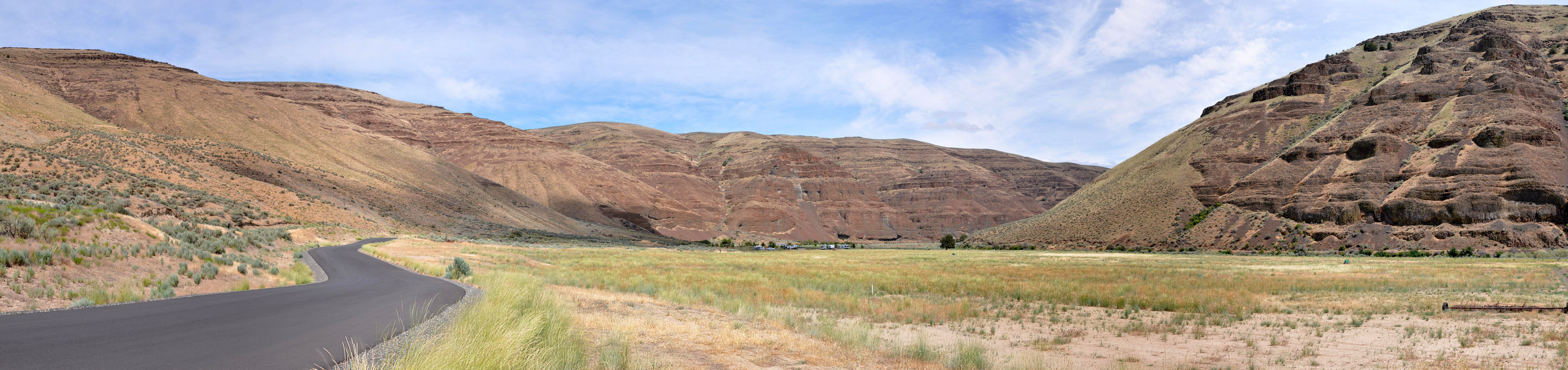 Panorama of Cottonwood Canyon State Park in the U.S. state of Oregon. View is downstream along the John Day River canyon. Originally 12 vertical images. This panoramic image was created with Autostitch. Stitched images may differ from reality.